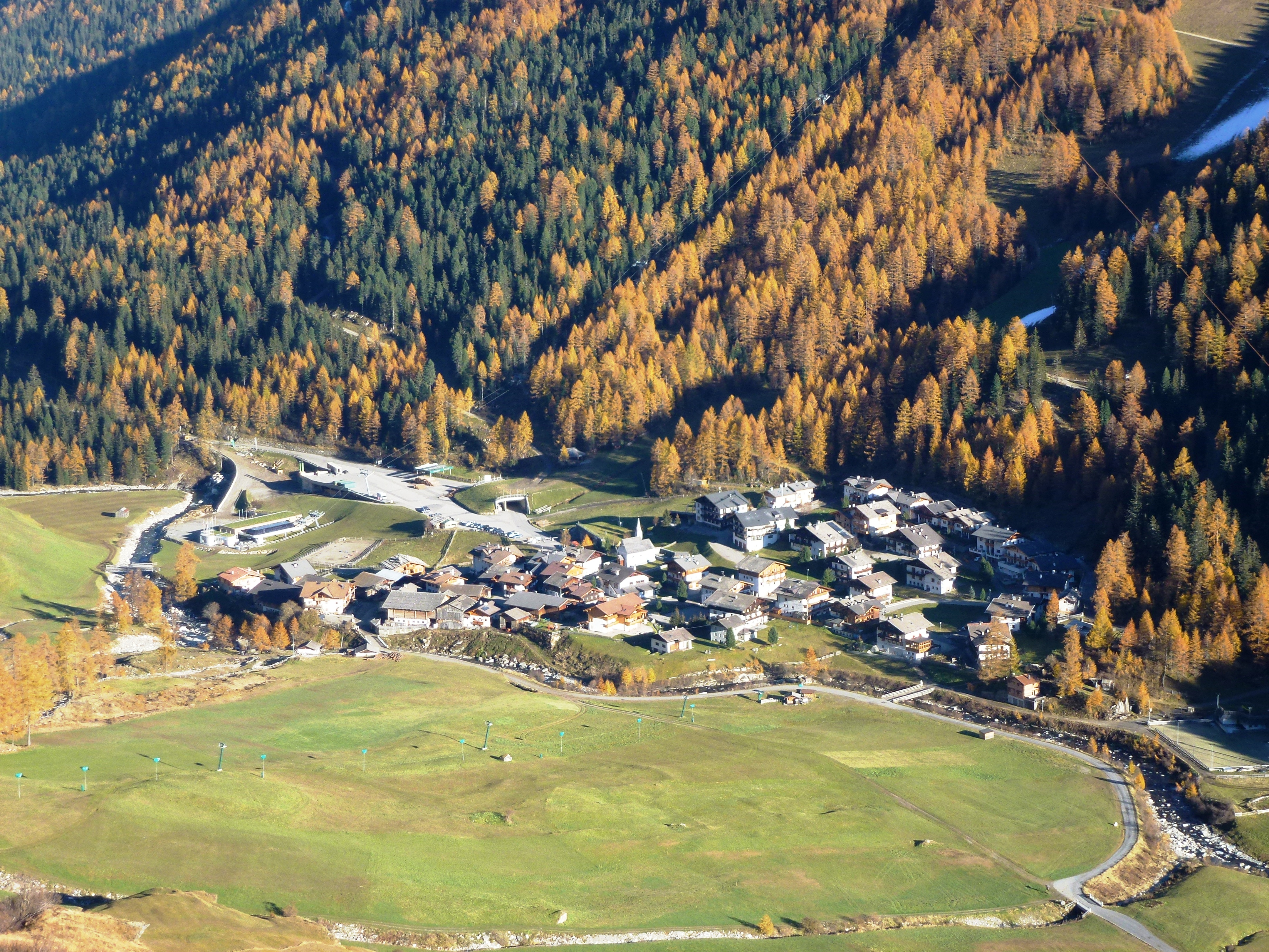 The village Pfelders/Plan in the Italian Alps